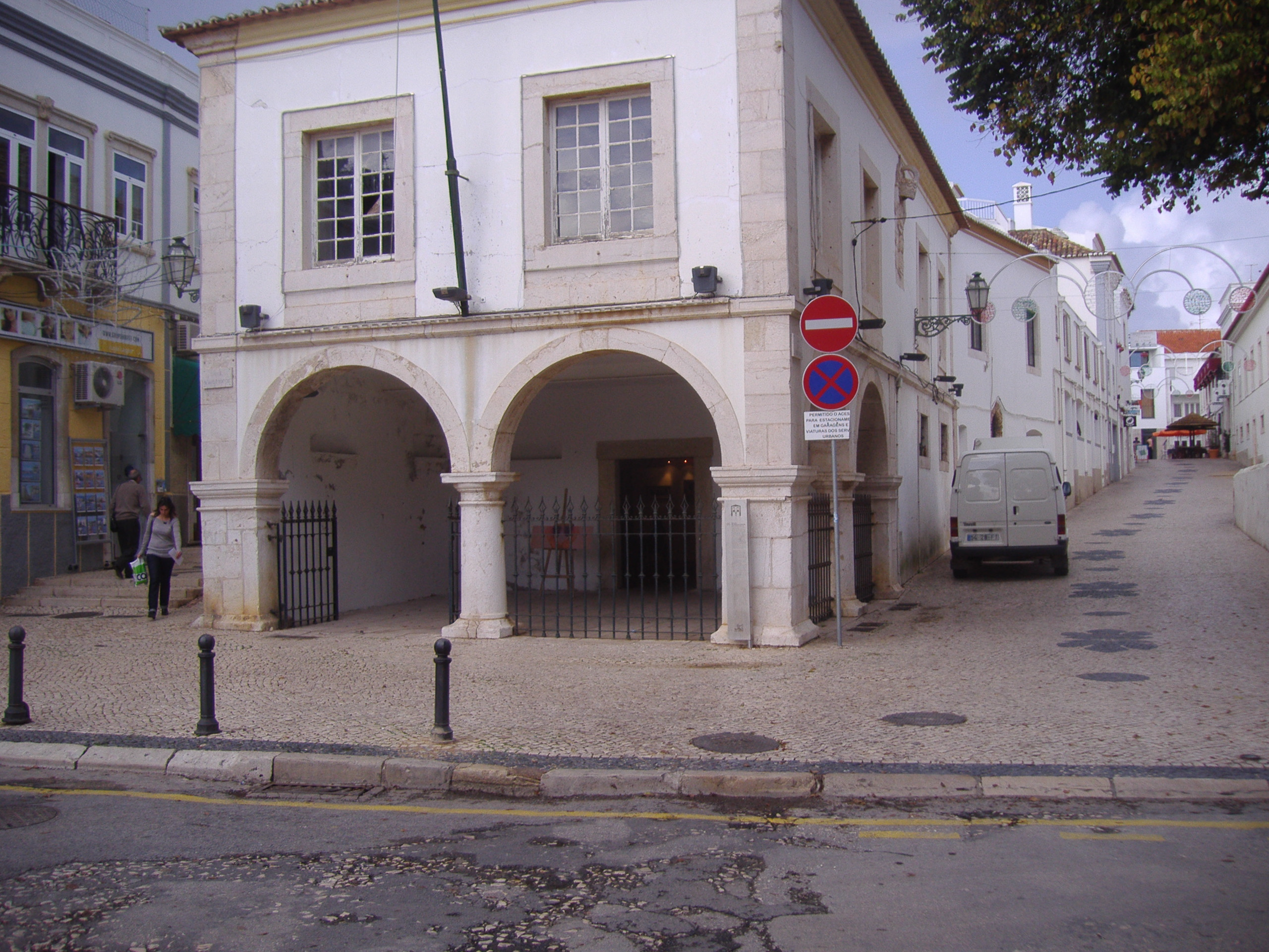 This building was once housed the slave market in town of Lagos, Algarve, Portugal. The building is located on the Praça Infante Dom Henrique and is classified as a monument of public interest. It was built in 1691 although the trade in slaves from Africa began on this sight in the mid fifteenth century and from here slaves were shipped throughout Europe at great profit to the Portuguese monarchy and merchants of lagos.